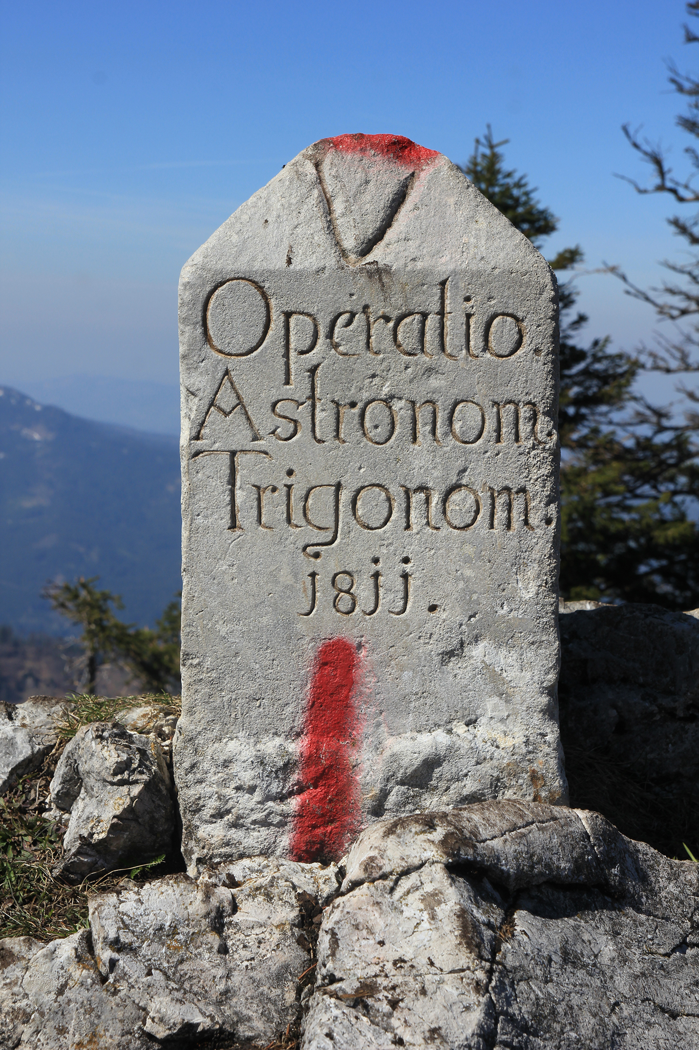 Surveying stone located at the summit of the Hochsalm mountian (1405 m), Upper Asutria. This stone has been used in the second military survey of the Austrian Empire in 1811, as well as during the cadastral survey in 1848.